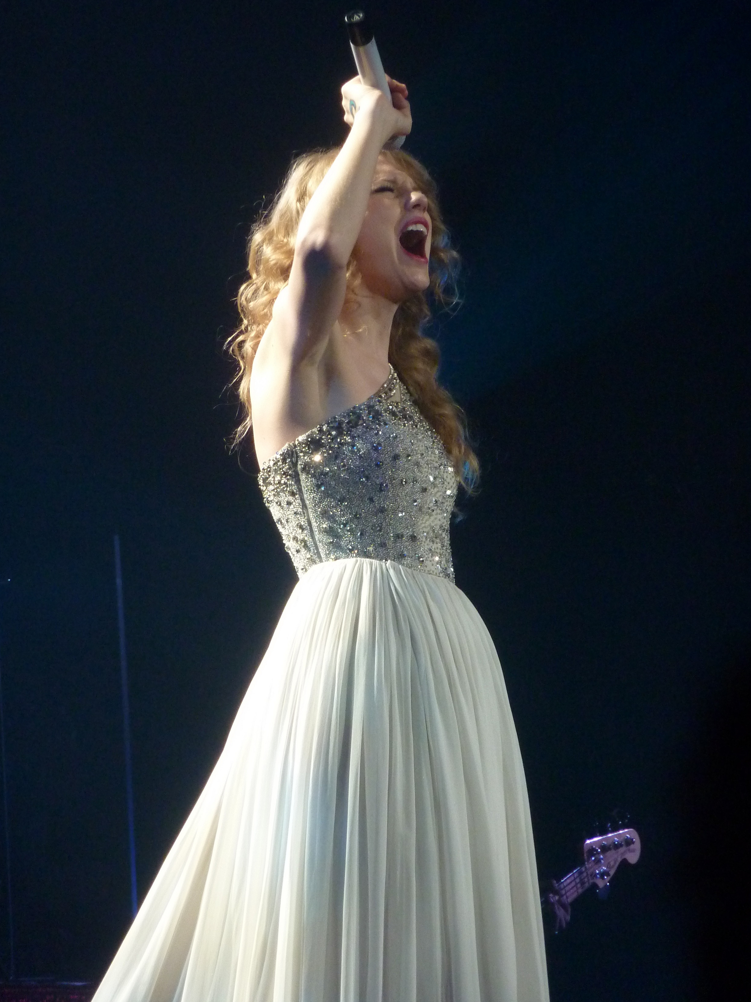 Taylor Swift performs Enchanted during Speak Now Tour in PARIS